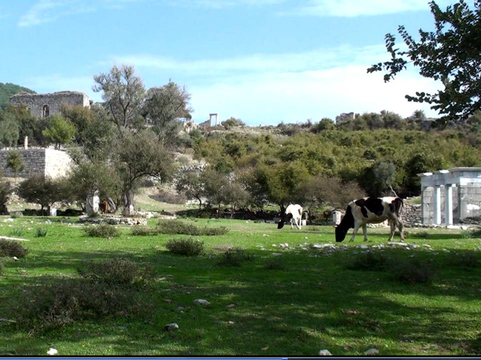 View of Kaunos from Sülüklü Göl (former inner port)